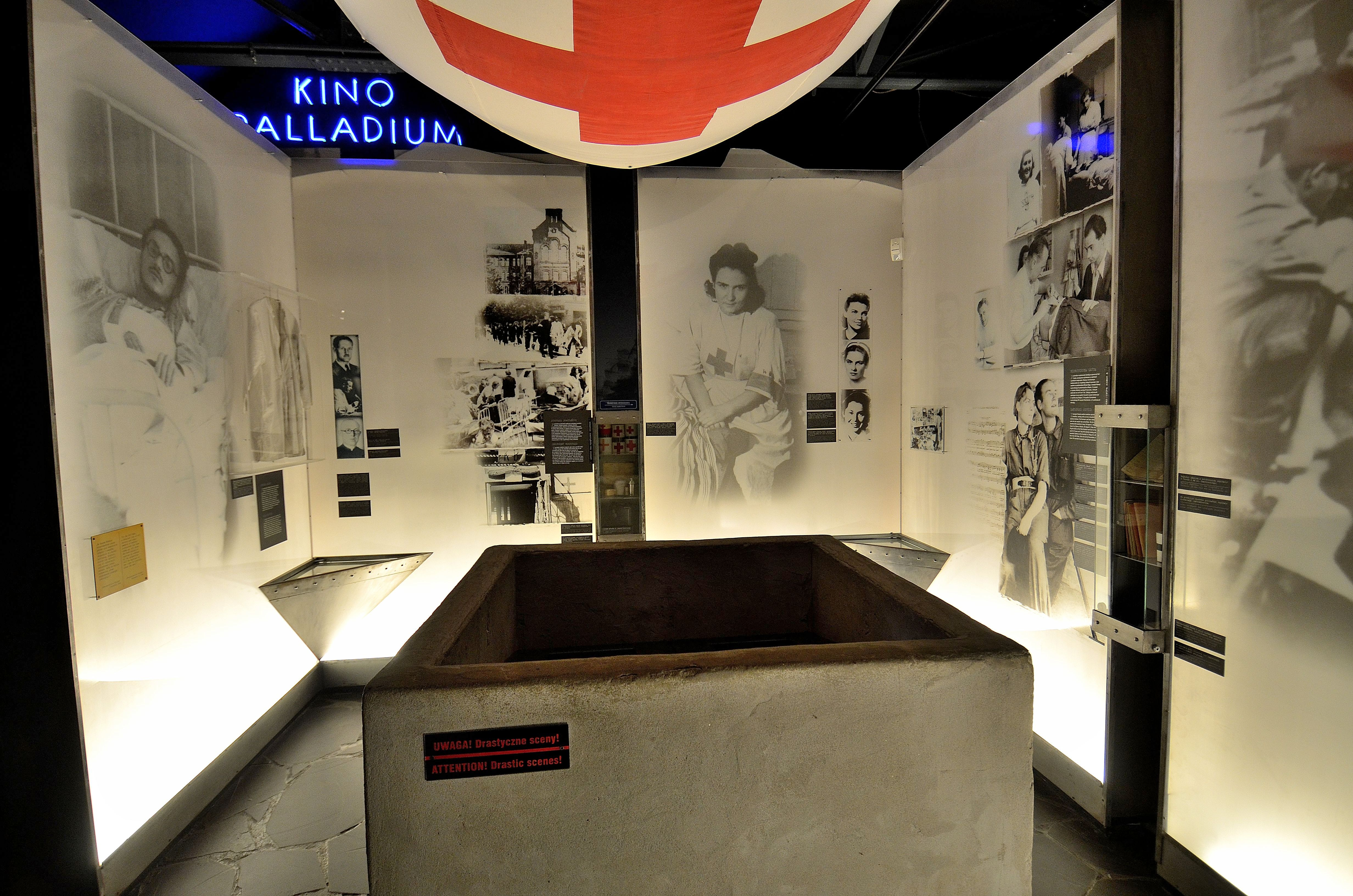 Warsaw Uprising Museum